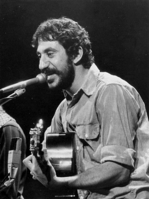 Photo of Jim Croce from the second anniversary of the In Concert music program. The program aired footage of a performance Croce had given previously.